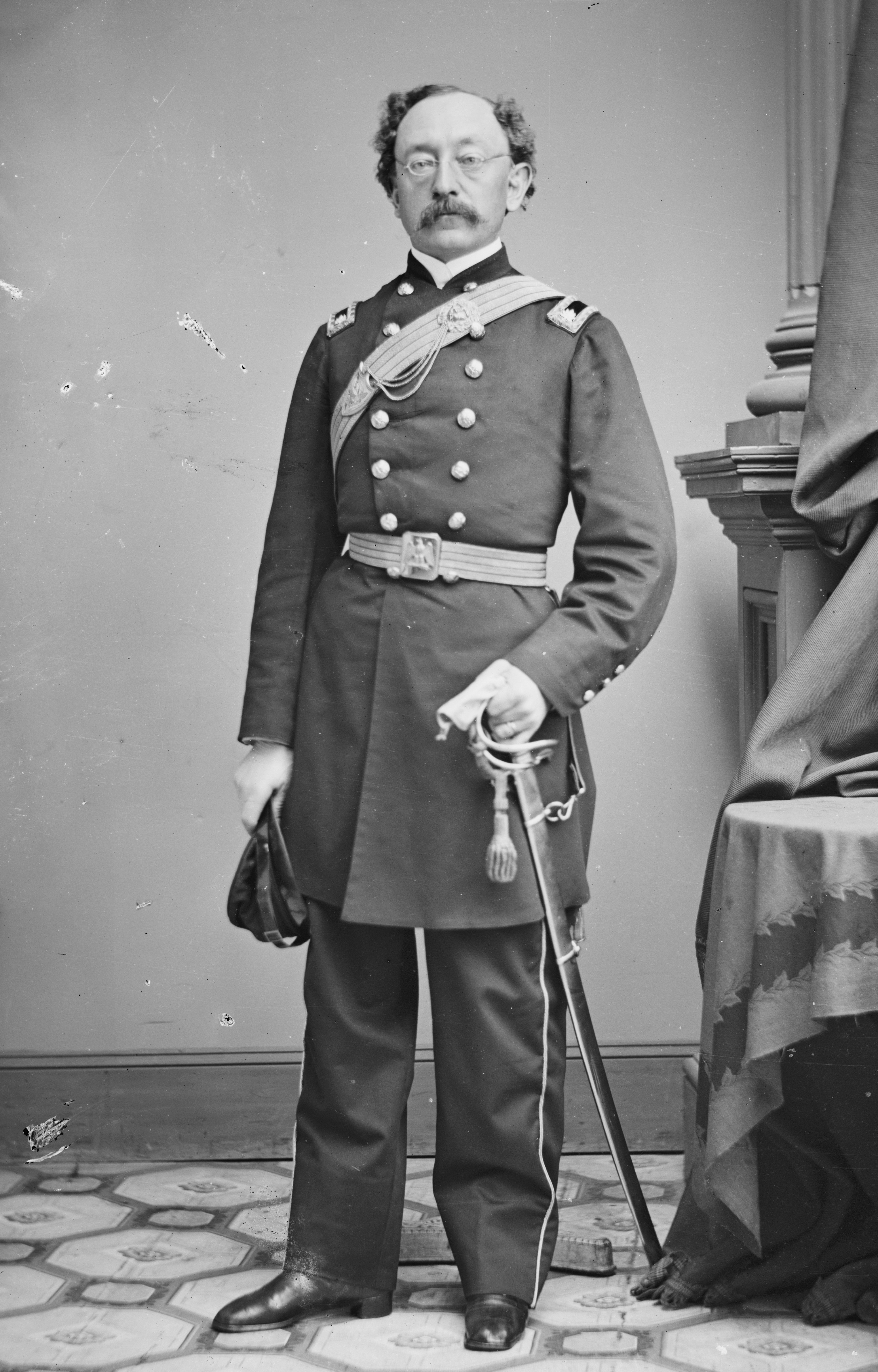 Title: Maj. Alexander Basezemwski, 31st N.Y. Inf., Killed May 7, 1862 at [à] Point, Va. Physical description: 1 negative